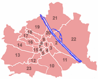 Numbered map of the 23 Districts of Vienna, with small numbers.